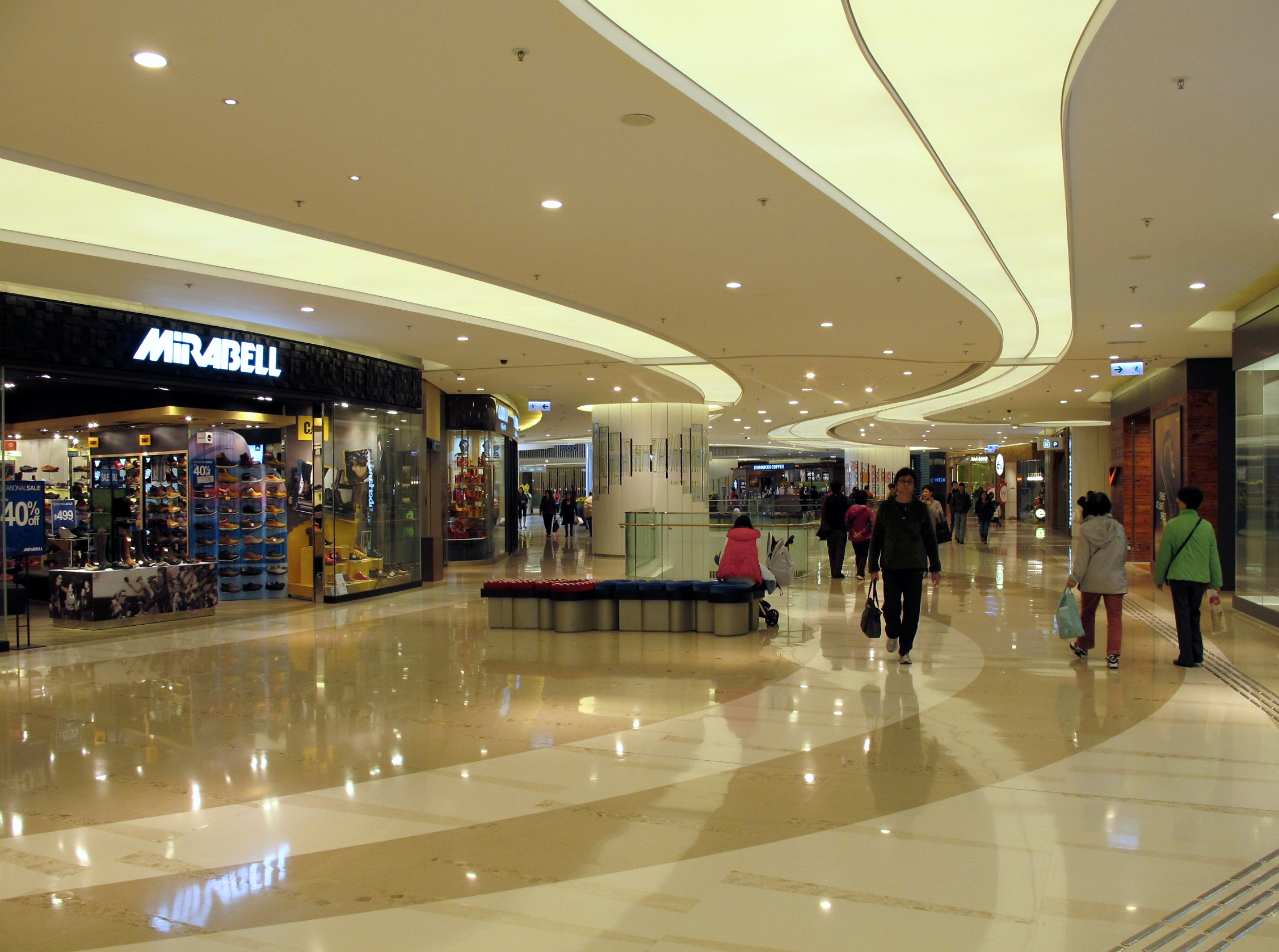 PopCorn Level 1